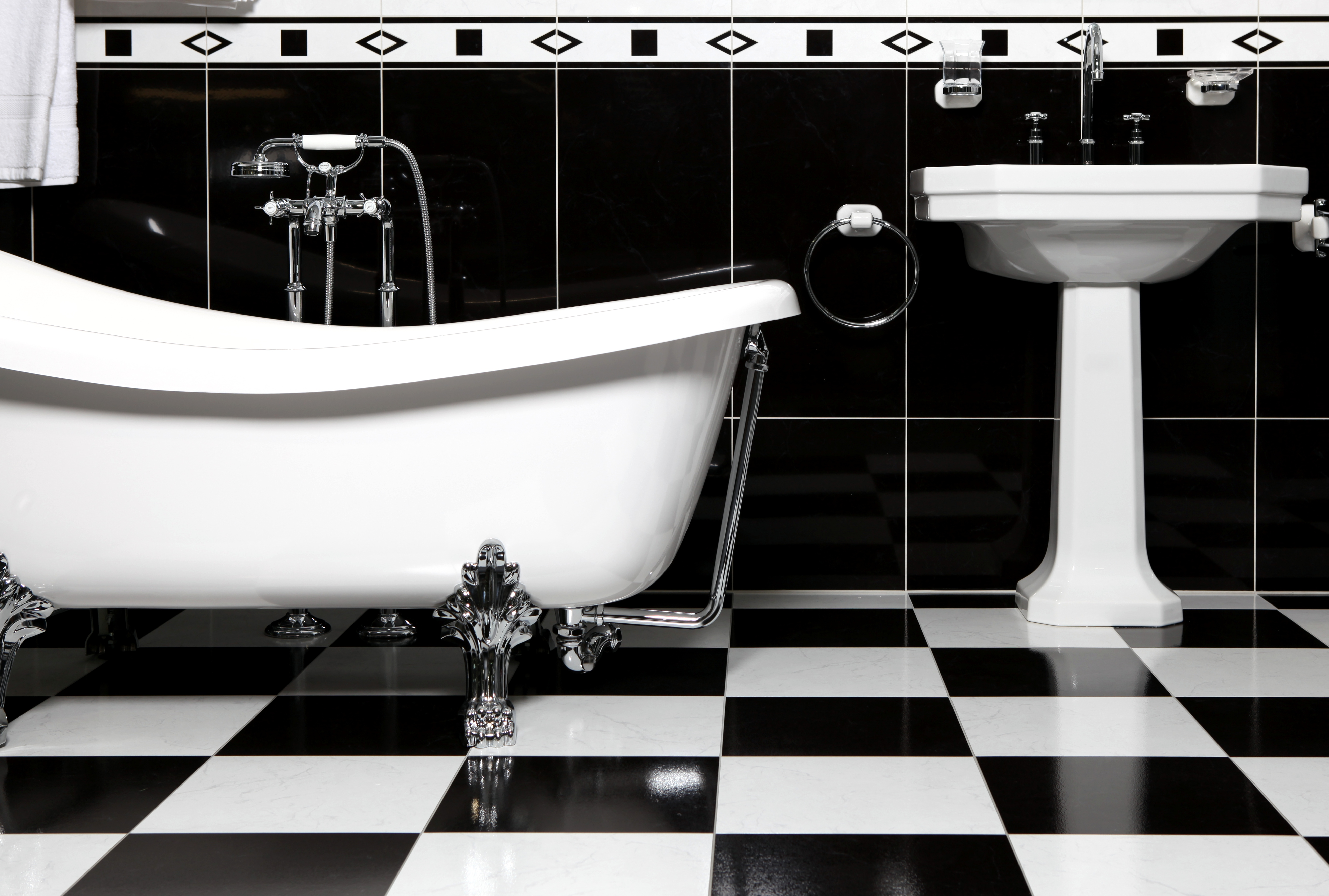 Black and white tiles bathroom